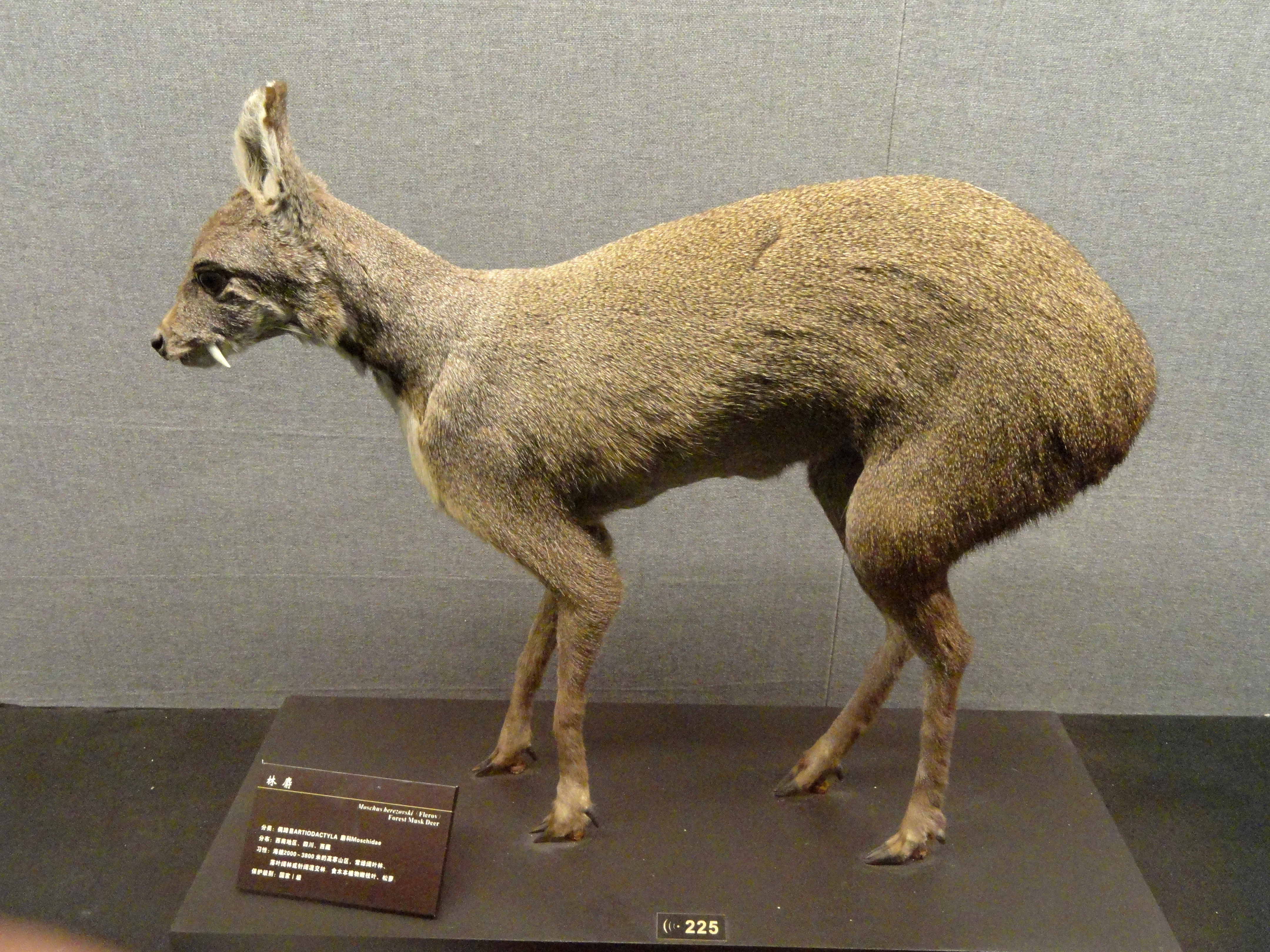 Taxidermy exhibit in the Kunming Natural History Museum of Zoology (昆明动物博物馆), Kunming, Yunnan, China.